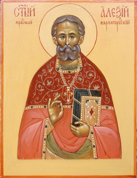 Icon. Saint Alexis of Wilkes-Barre, 2012